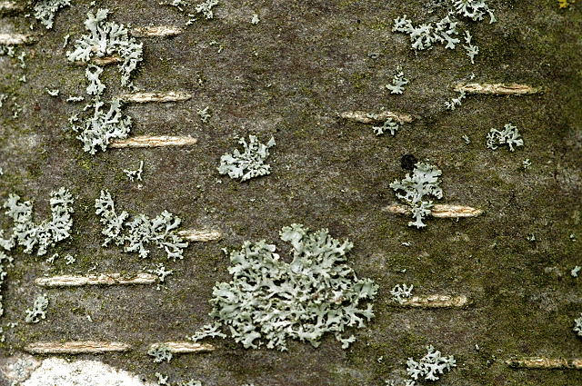 Picture taken in Commanster, Belgian High Ardennes . Species: Physcia tenella